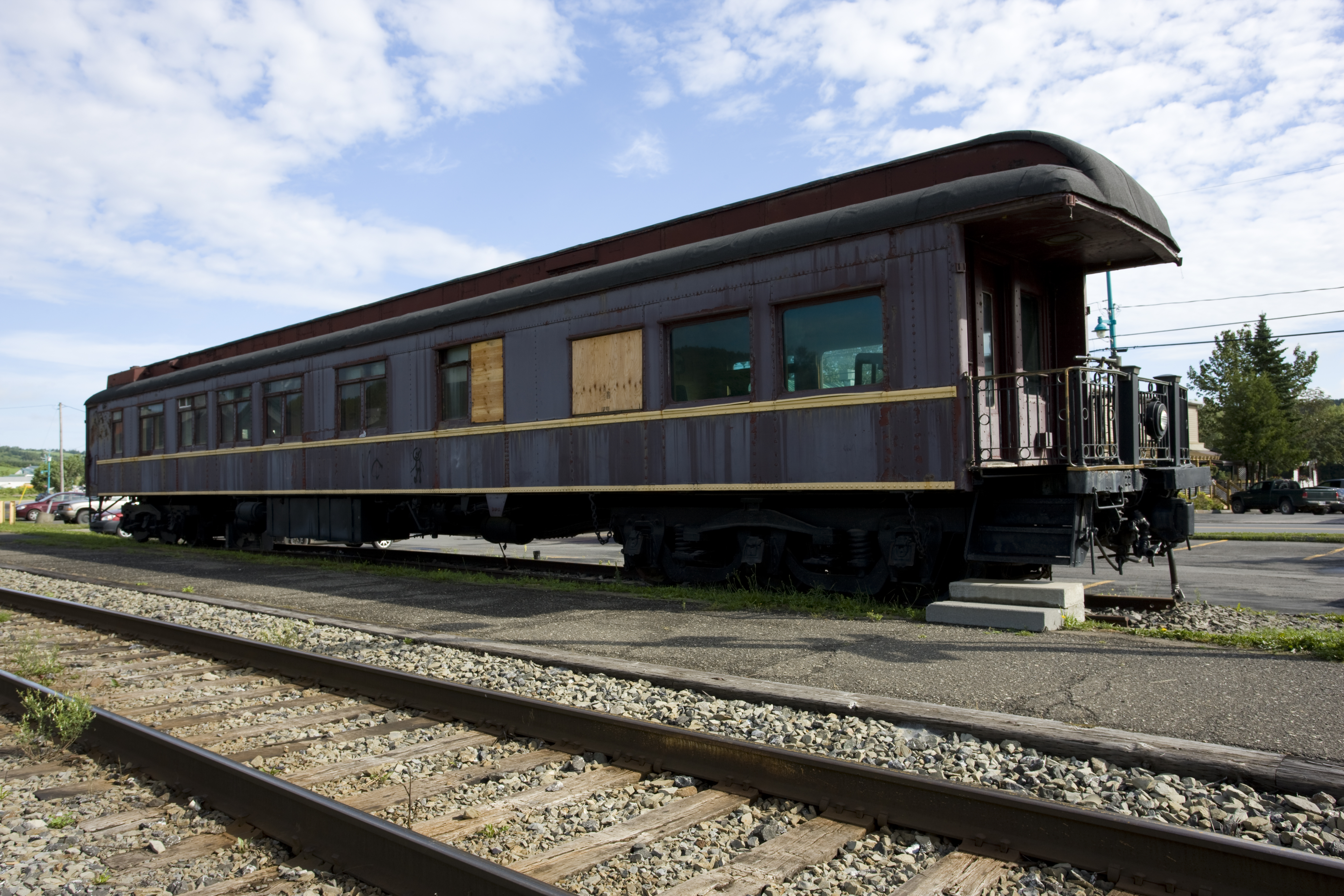 Amqui (2011 Population 6,322) is a town in eastern Quebec, Canada, at the base of the Gaspé peninsula in Bas-Saint-Laurent. Located at the confluence of the Humqui and Matapédia Rivers, it is the seat of La Matapédia Regional County Municipality. The main access road is Quebec Route 132.